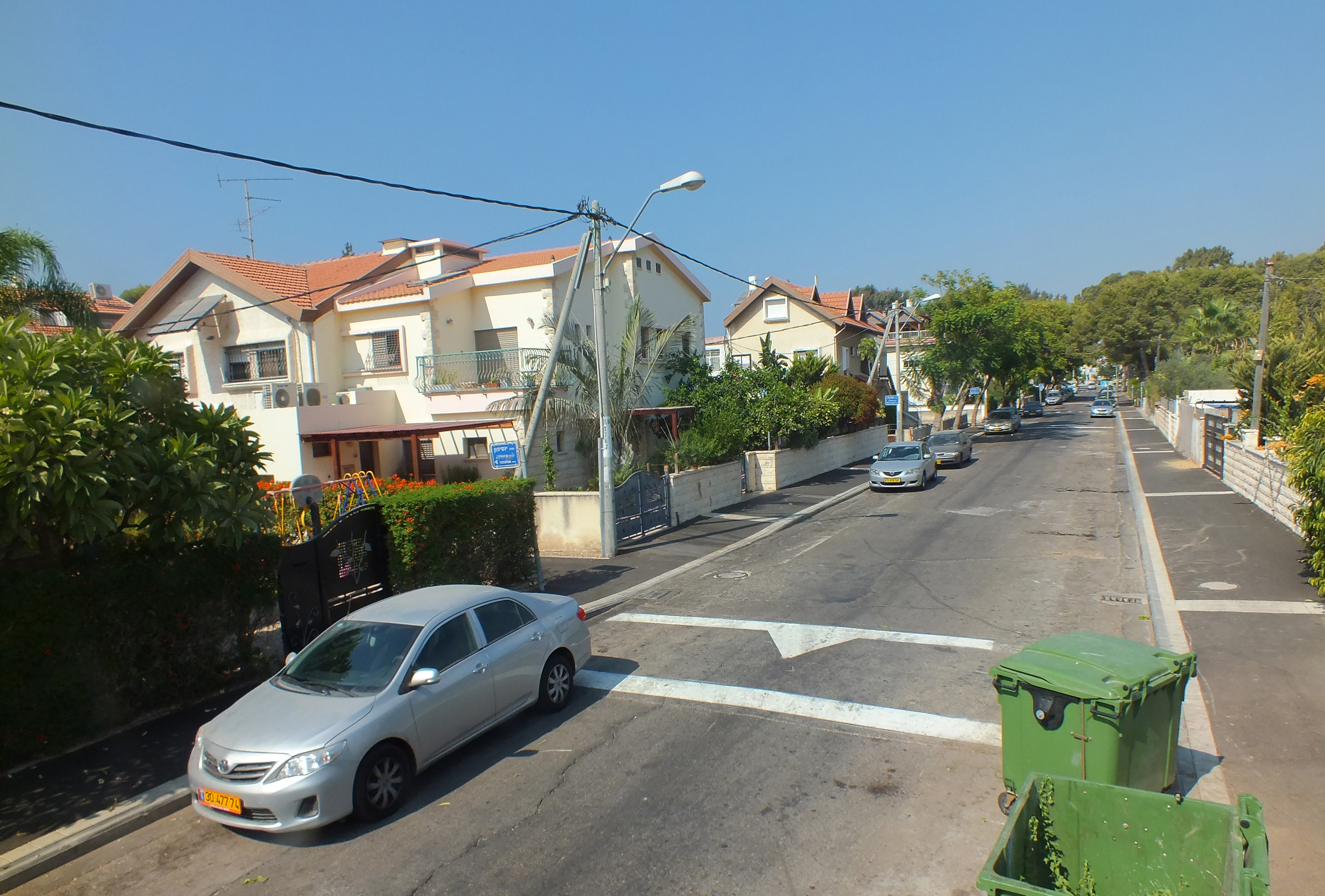 HaRo'e Avenue. That'd probably be my pick if ever forced to live in the northern suburbs! :}